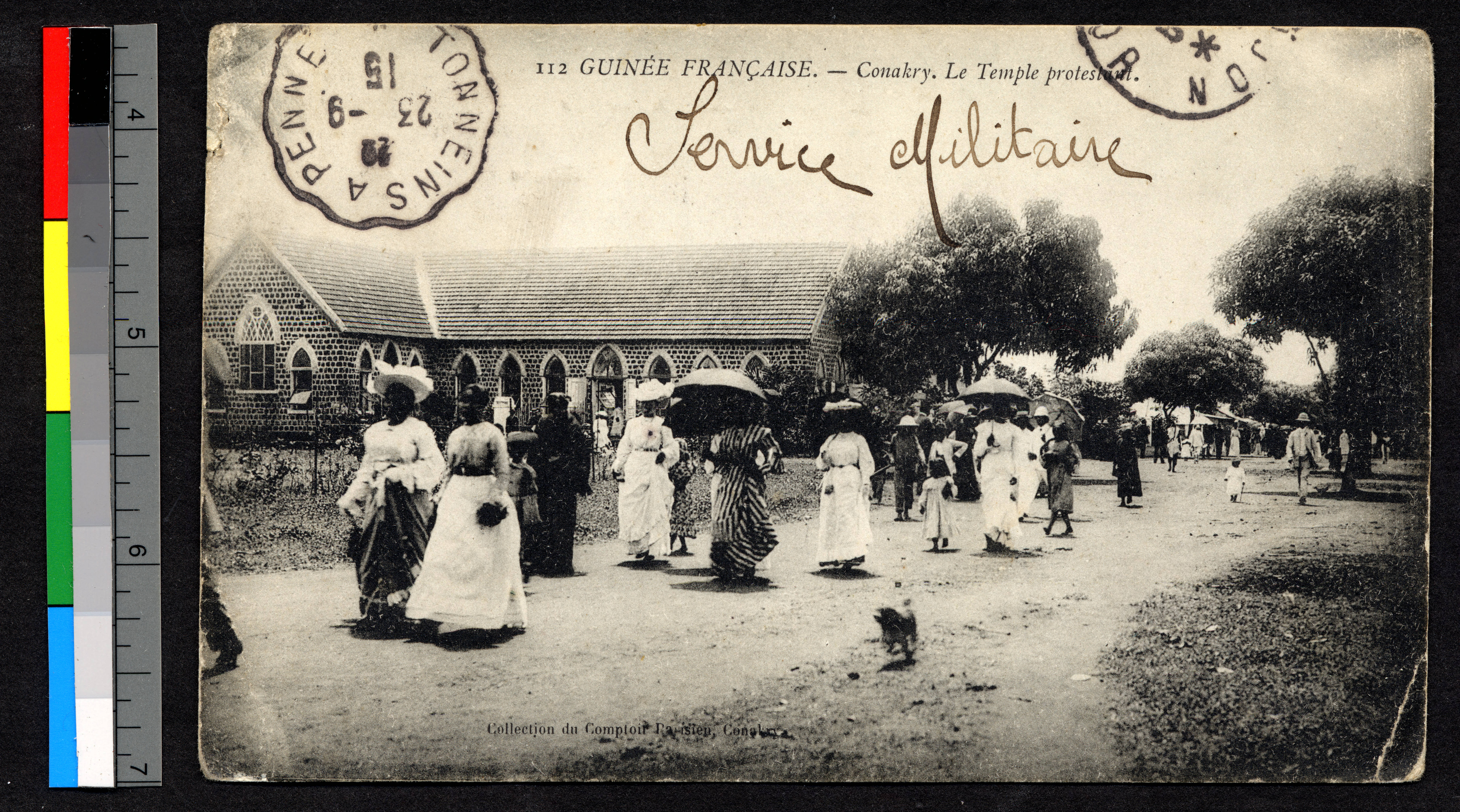 People departing from a Protestant church, Guinea, ca.1915 "112 Guinee Francaise - Conakry, Le Temple protestant." Numerous people dressed in Western and indigenous finery depart from a stone Protestant church.; The back of the postcard is closely covered in handwriting and is postmarked. Subject (aat): general views Photographer: Unidentified Filename: IMP-YDS-RG101-014-0000-0095 Coverage date: circa 1915 Subject (unesco): Churches; Indigenous populations Part of collection: International Mission Photography Archive, ca.1860-ca.1960 Type: images Part of subcollection: Photographs from the Yale Divinity School Library, New Haven, Connecticut, ca.1880-1950 Repository name: Yale University. Divinity School. Day Missions Library Archival file: impa_Volume265/IMP-YDS-RG101-014-0000-0095.tiff Geographic subject (city or populated place): Conakry Repository address: Yale University Divinity School Library, 409 Prospect Street, New Haven, CT 06511 Geographic subject (country): Guinea Geographic subject (continent): Africa Rights: Yale University. Divinity School. Day Missions Library Part of series: Yale Divinity Library Special Collections; Missionary Postcard Collection Repository Date created: circa 1915 Publisher (of the digital version): University of Southern California. Libraries Format (aat): photographic postcards, 9 x 14 cm.; photographs Legacy record ID: impa-m59178 Access conditions: File: YDS/RG101/014/0000/0095